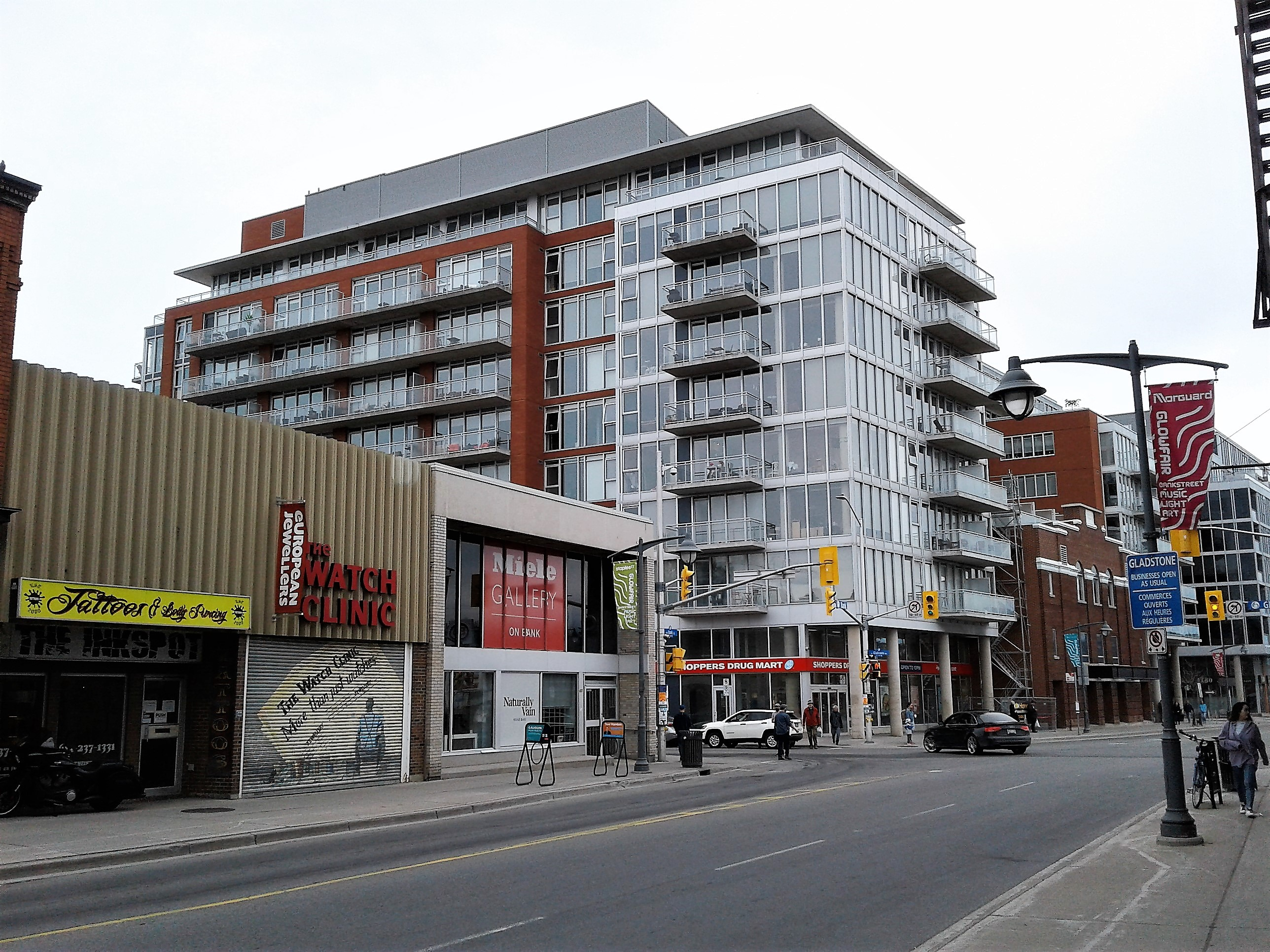 455 Bank Street (at Gladstone), Ottawa